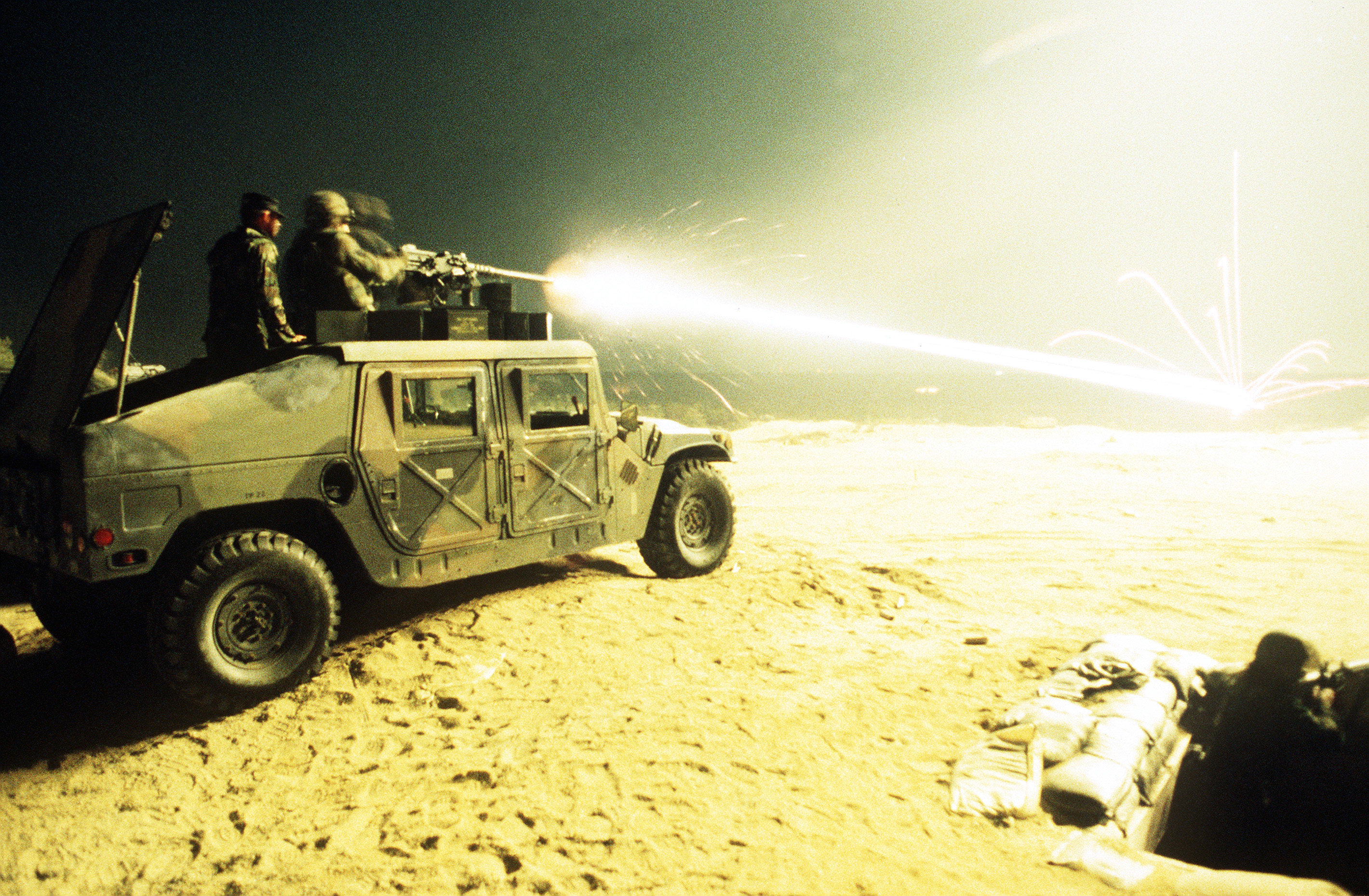 Tracer rounds ricochet off of a tank as security police heavy weapons specialists fire a High-Mobility Multipurpose Wheeled Vehicle (HMMWV) mounted .50 caliber machine gun at the Air Mobility Warfare Center. Location: FORT DIX, NEW JERSEY (NJ) UNITED STATES OF AMERICA (USA). Published in Airman Magazine July 1996. Exact Date Shot Unknown.